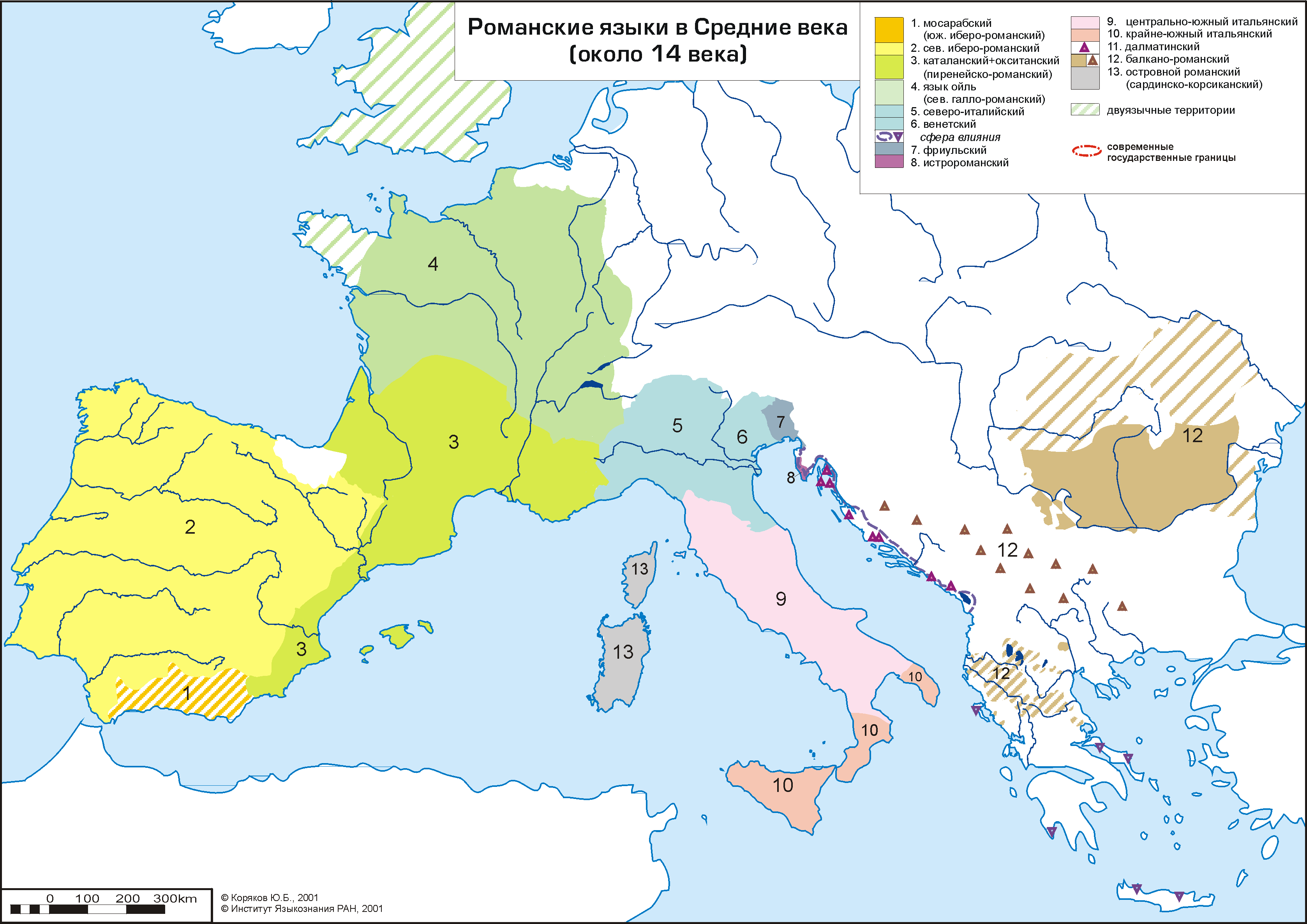 Approximate area of Romance languages in Europe circa 14 c. AD.